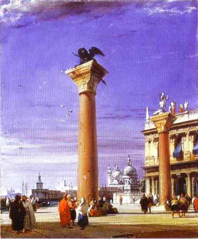 St. Mark's Column in Venice, Oil on canvas. Tate Gallery of British Art, London, UK